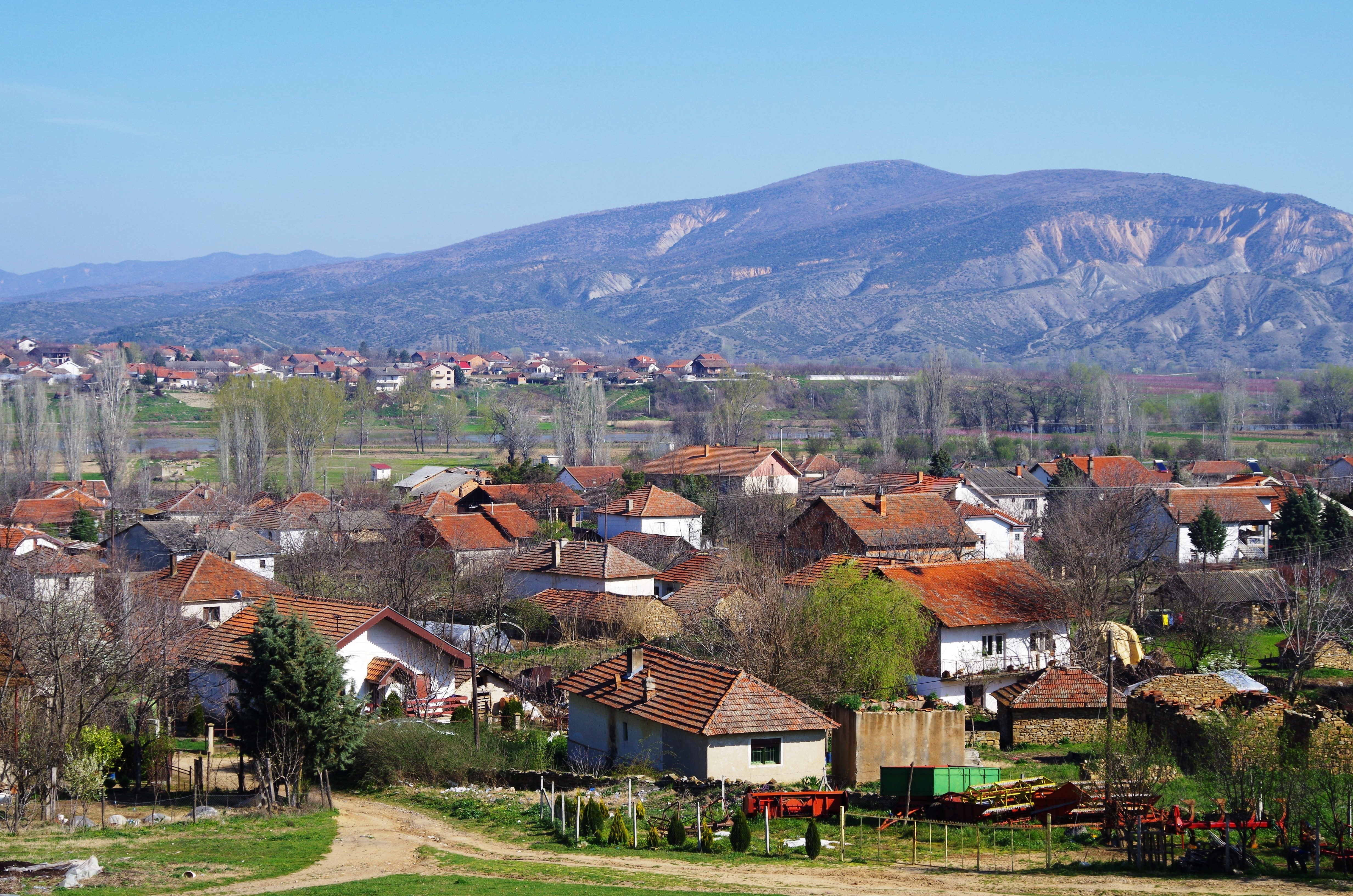 Panorama photo of the villages Pepeliste and Krivolak